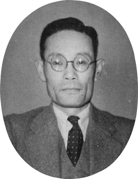 Keiji Ishimaru.